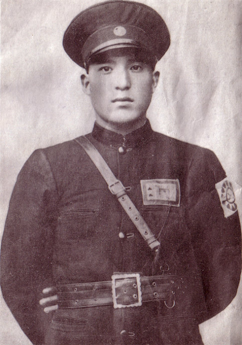 Republic of China Chinese muslim General Ma Zhongying. Attended Whampoa Military Academy , and commanded the 36th division.